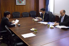 James Zumwalt, Charge d'Affaires, talked with Shinzō Abe, Member of the House of Representatives, in Tōkyō Metropolis, on June 20, 2009.